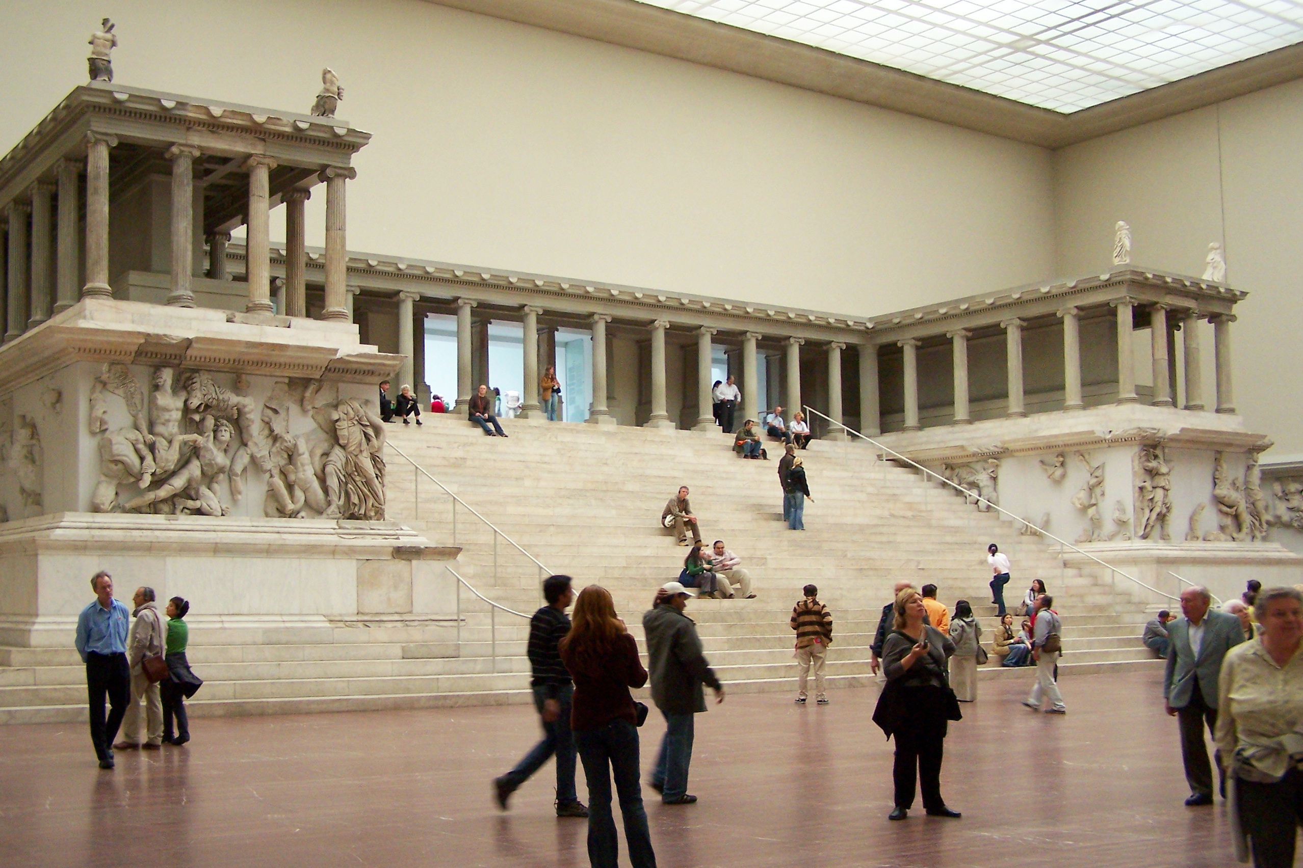 Altar to Zeus in the Pergamonmuseum, Berlin.